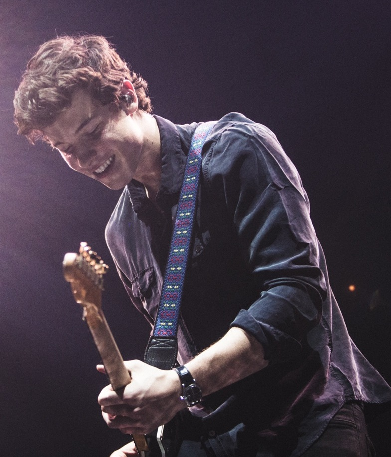 own work photograph of Shawn Mendes in 2017